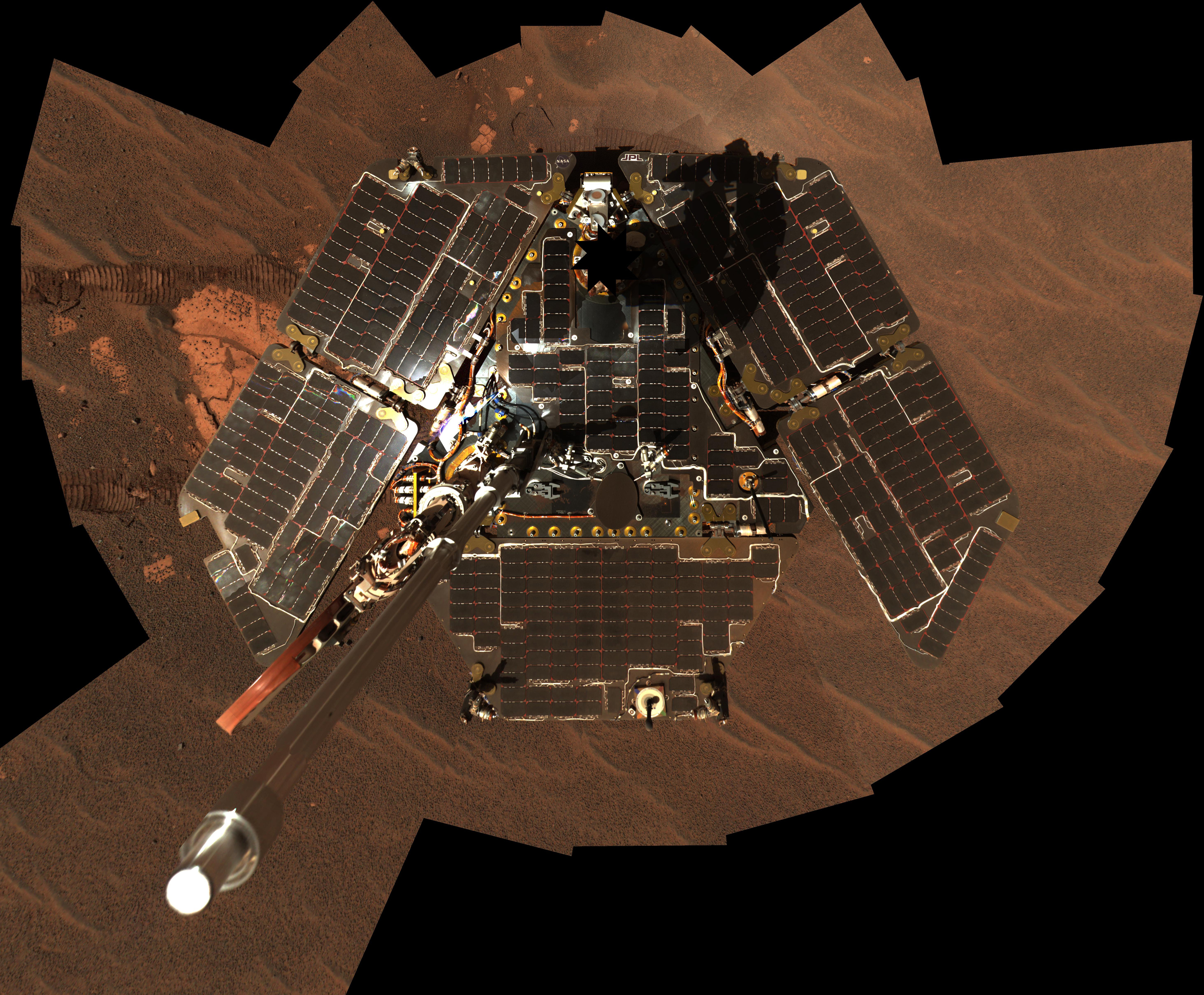 PIA07372: Opportunity Self-Portrait, Sols 322-323 Original Caption Released with Image: NASA's Mars Exploration Rover Opportunity used its panoramic camera to take the images combined into this mosaic view of the rover. The downward-looking view omits the mast on which the camera is mounted. It shows Opportunity's solar panels to be relatively dust-free. The images were taken through the camera's 600-, 530- and 480-nanometer filters during Opportunity's 322nd and 323rd martian days, or sols (Dec. 19 and 20, 2004). Image Credit: NASA/JPL/Cornell Image Addition Date: 2005-02-18 Notes: Image has been cropped, rotated, and resized from the NASA/JPL/Cornell original.